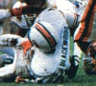 Miami Dolphins' safety Glenn Blackwood pictured in a defensive play against the against the New England Patriots in the 1985 AFC Championship game on January 12, 1986.